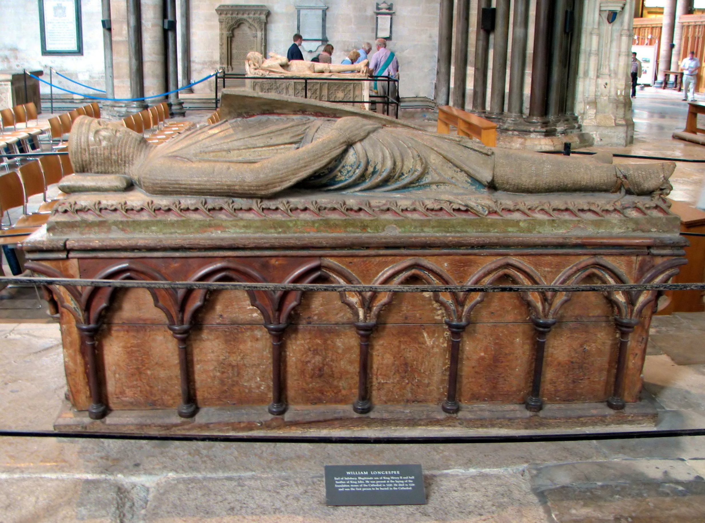 Tomb of William Longespée, 3rd Earl of Salisbury, in Salisbury Cathedral, England